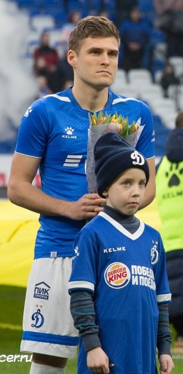 Dmitri Skopintsev with FC Dynamo Moscow before the game against FC Tambov.